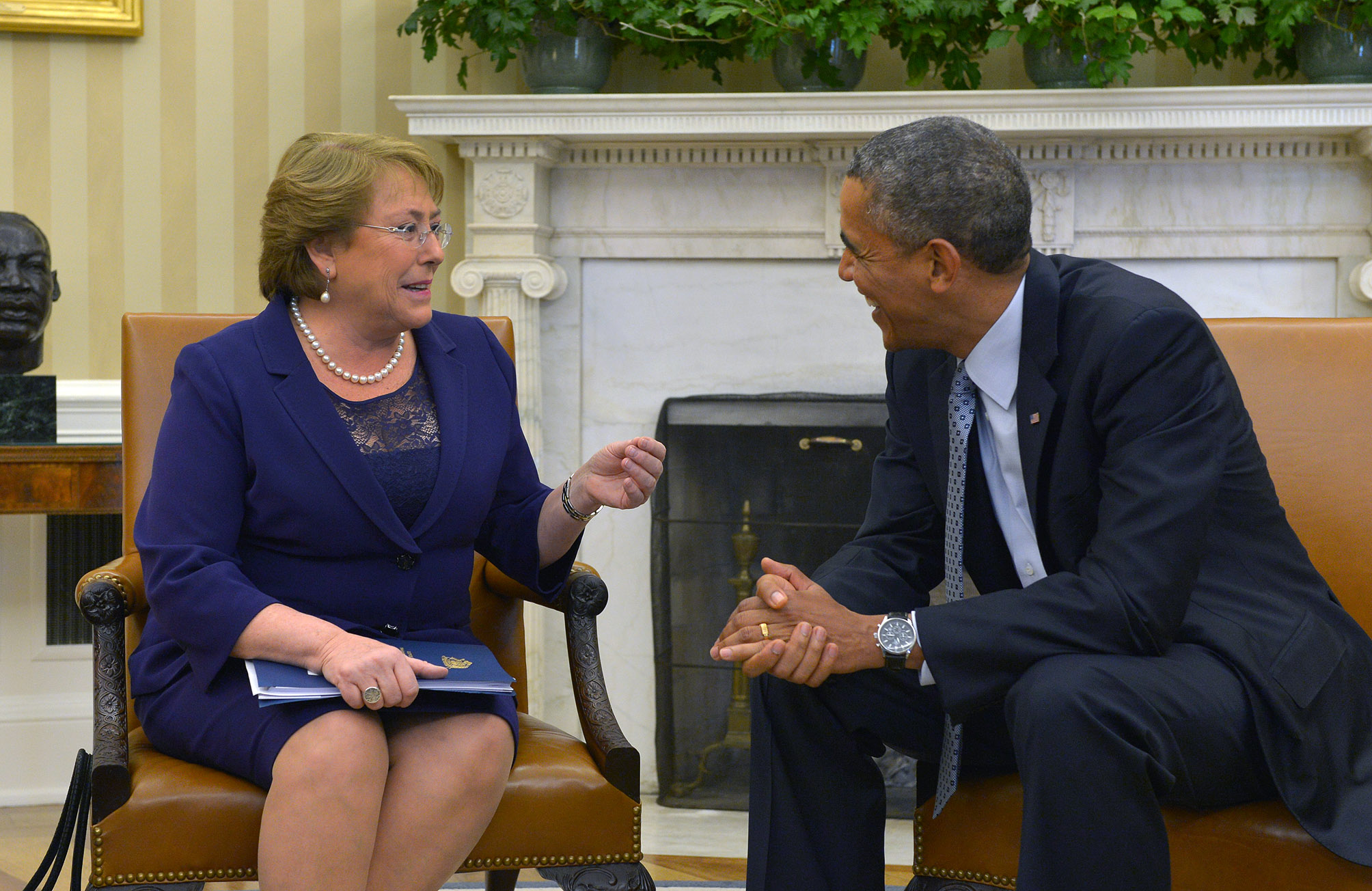 Chilean President Michelle Bachelet meets with Barack Obama, President of the United States, in June 2014.